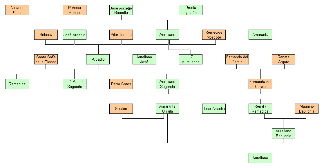 Buendía family tree. The green boxes represent characters who are born into the Buendía family. Orange boxes represent characters who marry in to or otherwise associate themselves with the Buendías.